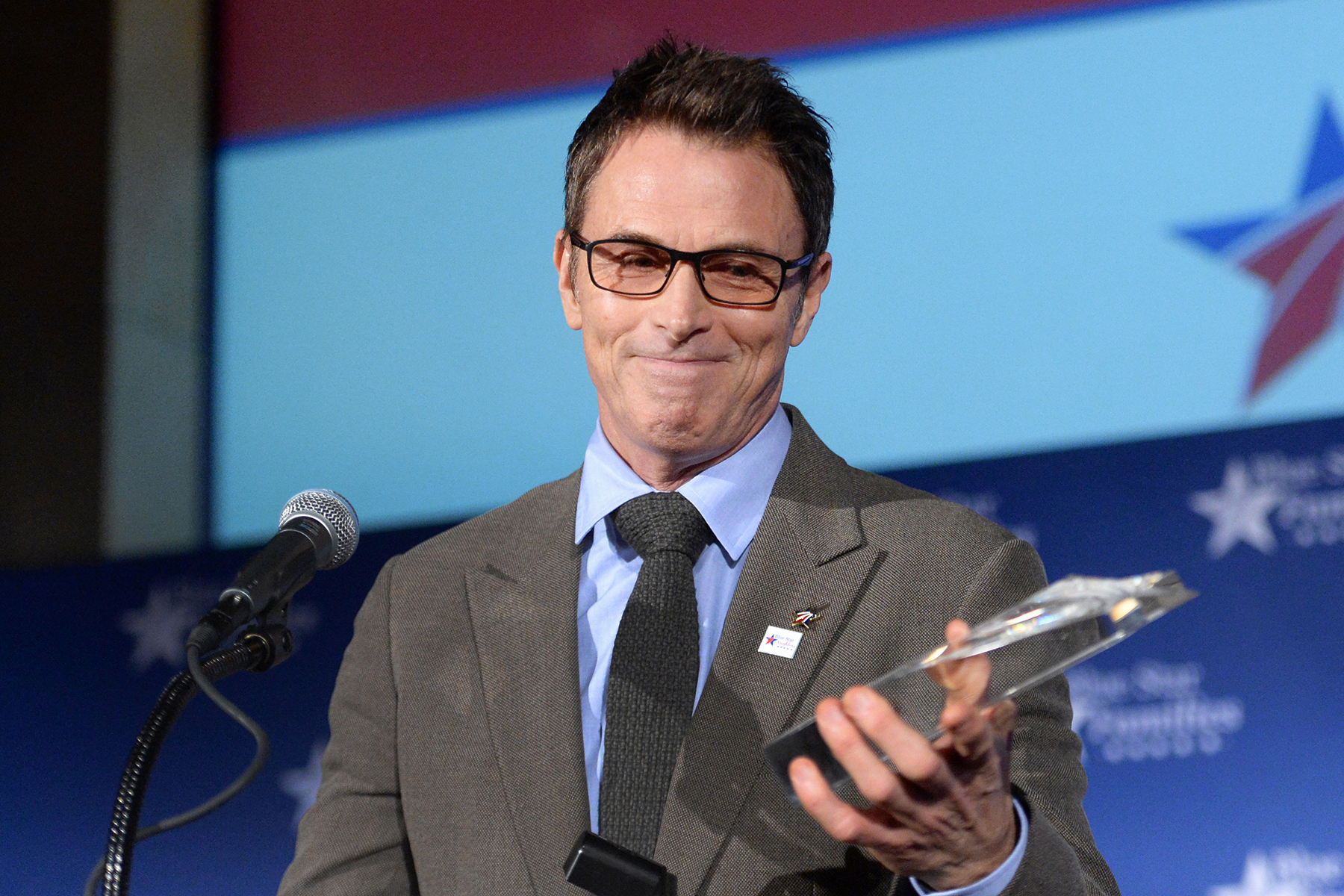 Screen, stage and voice actor Tim Daly holds an award presented to The Creative Coalition during the Blue Star Families 5th Anniversary Celebration in Washington, D.C. Feb. 24, 2015. Daly is the president of The Creative Coalition. (DoD News photo by EJ Hersom)